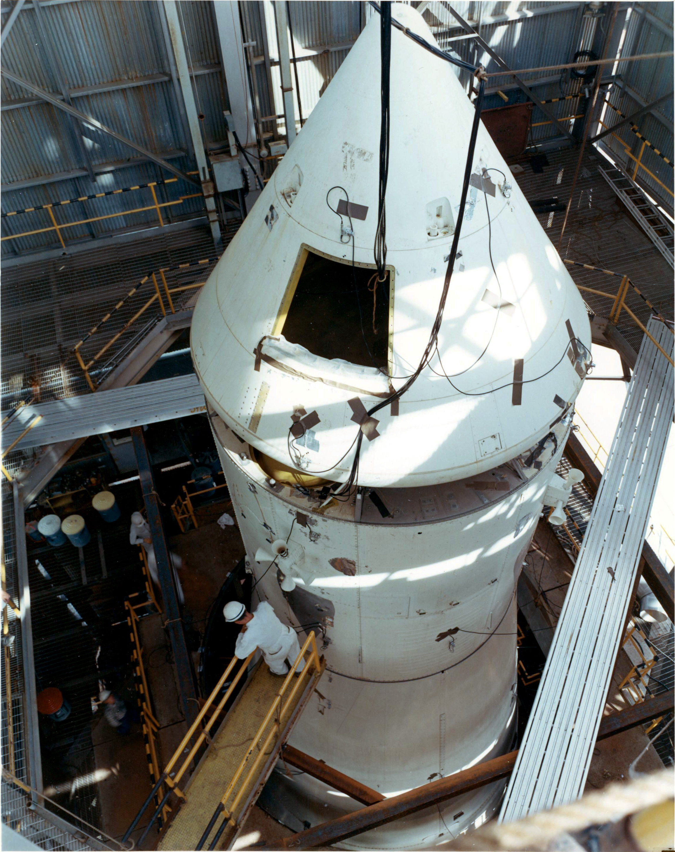 Top view, S-IB payload, dynamic test stand